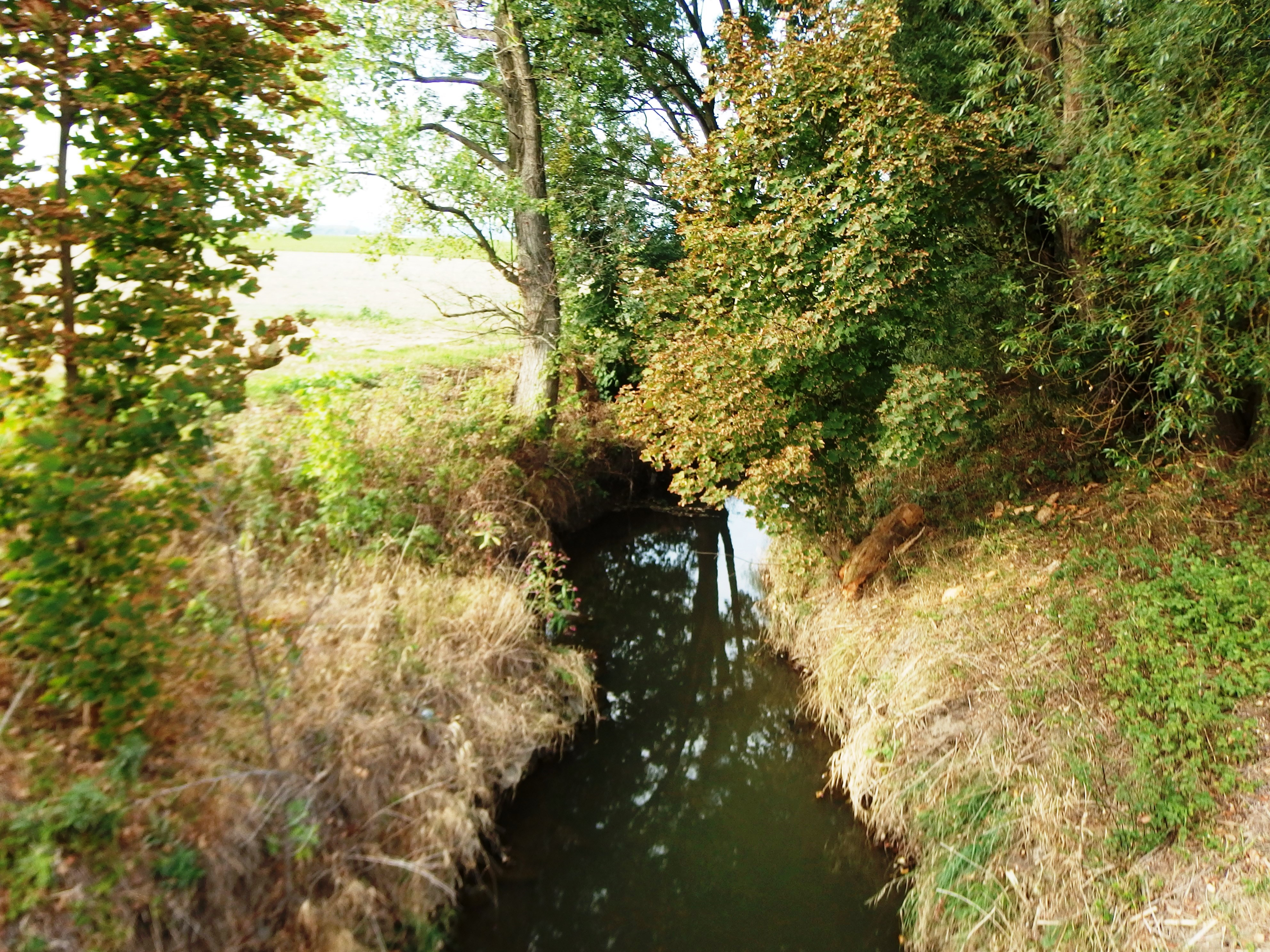 Štěpánov, Olomouc District, Czech Republic, part Benátky.